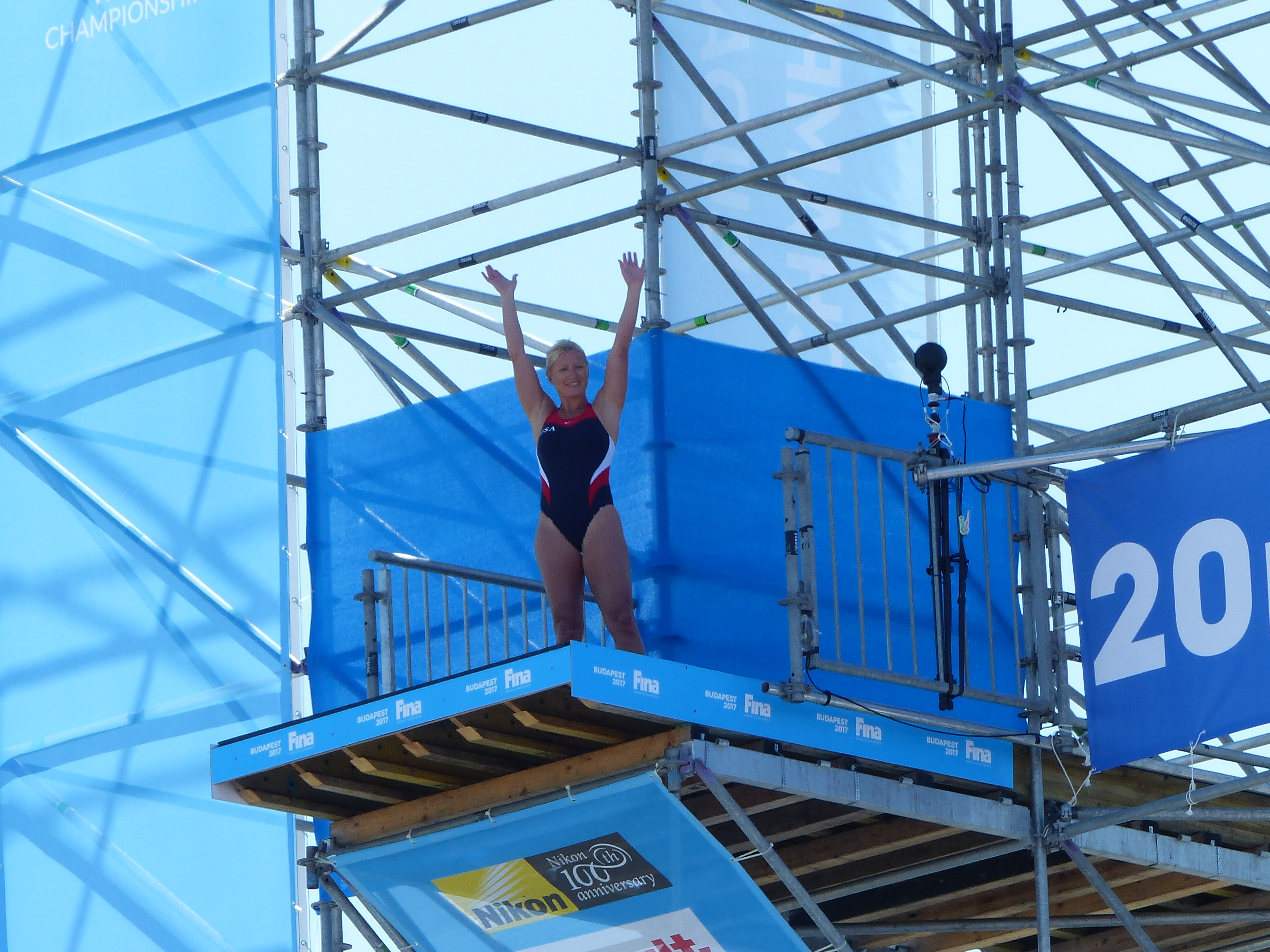 Cesilie Carlton (U.S.A). Bornː San Antonio, 1981.03.27, (2013, Barcelona); (2015, Kazany), Red Bull (2015, 2016). Taken on Saturday, 29th of July, 2017. 2017 World Aquatic Championships, Budapest, Hungary, Central Europe. Women’s 20m High Dive Final Resultsː Rhiannan Iffland, AUS, 320.70, Adriana Jimenez, MEX, 308.90, Yana Nestsiarava, BLR, 303.95, Tara Tira, USA, 299.50, Anna Bader, GER, 283.40